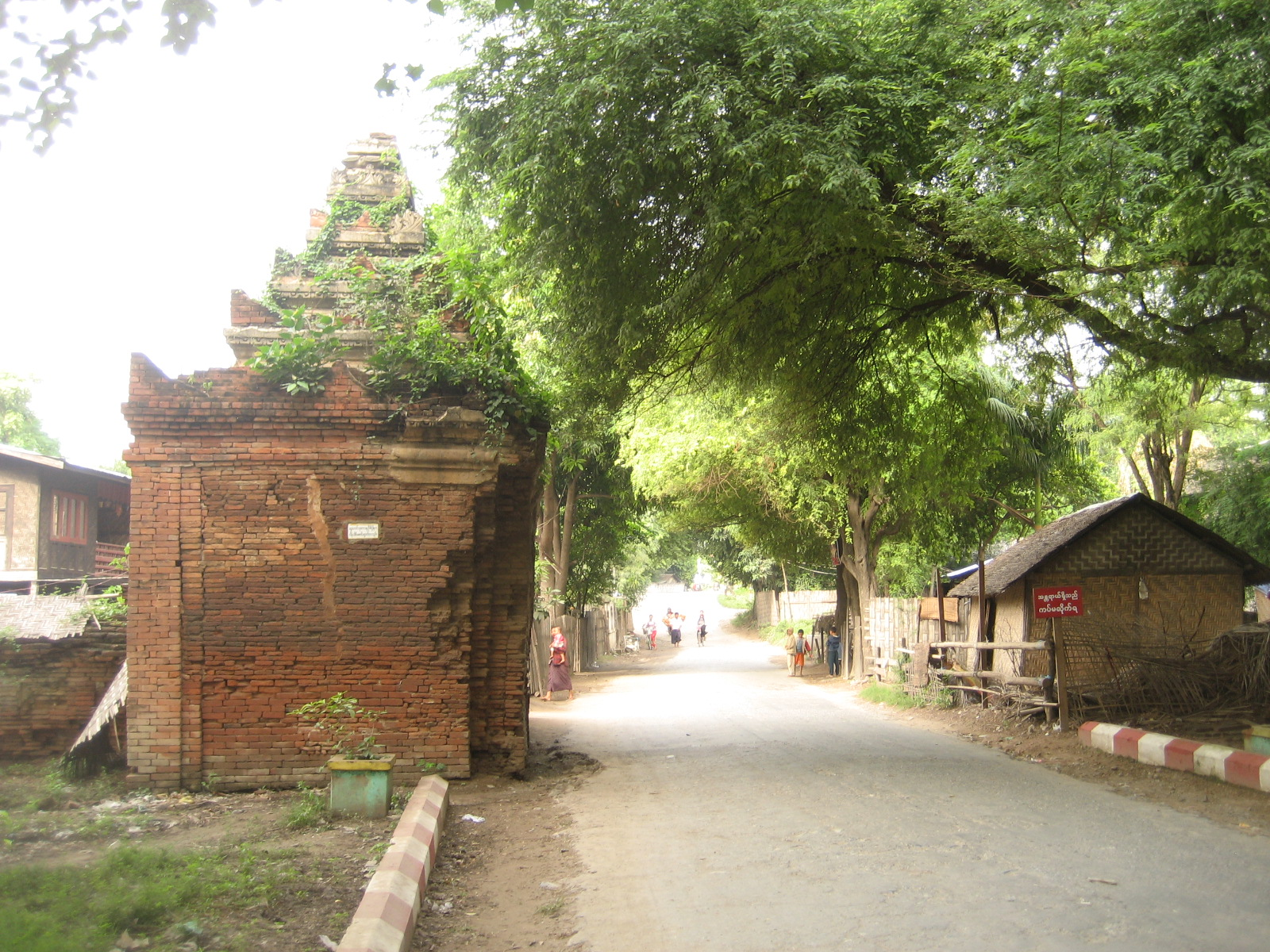 Old City Gate at Amarapura, Myanmar